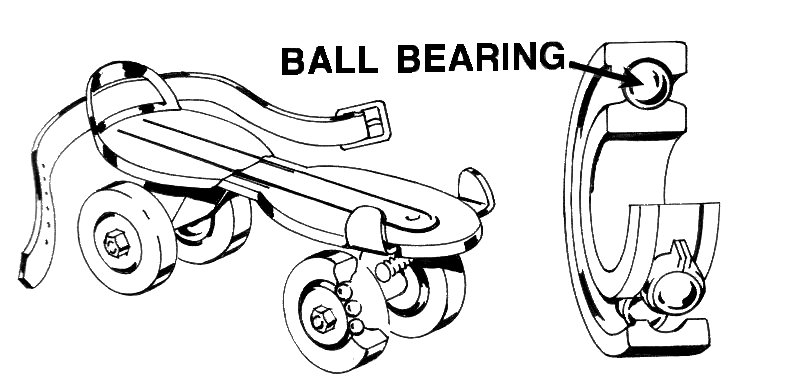 Line art drawing of skates and their ball bearings.